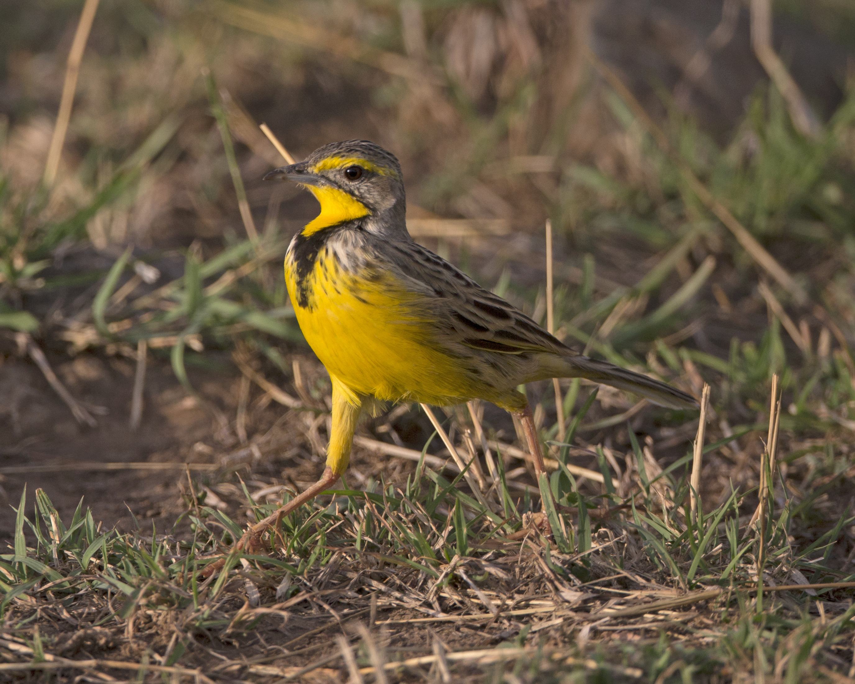 Yellow-throated Longclaw Macronyx croceus Macronyx croceus croceus 5th. September 2013 Masai Mara, Kenya CF2P9936